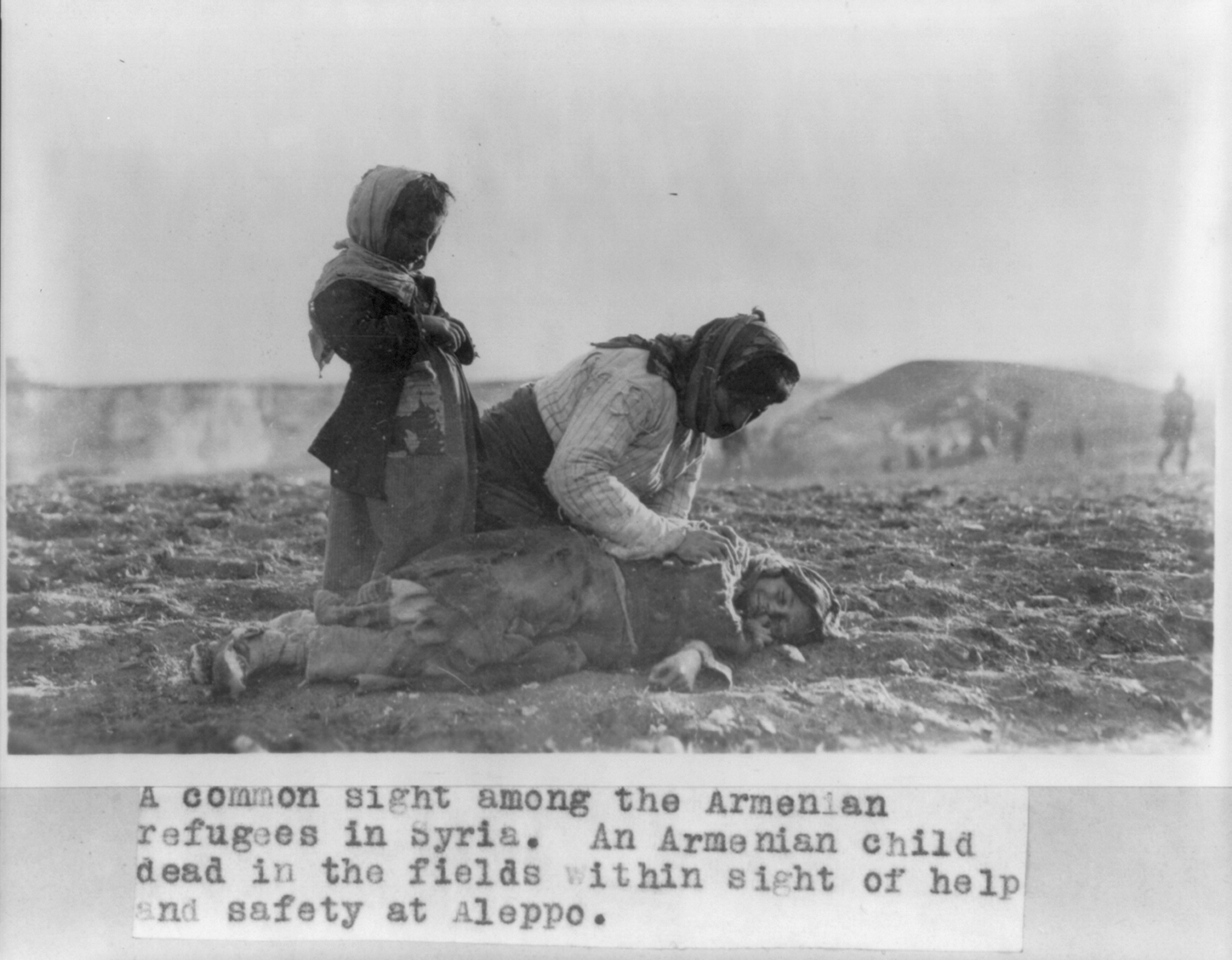 Near East relief a common sight among the Armenian refugees in syria